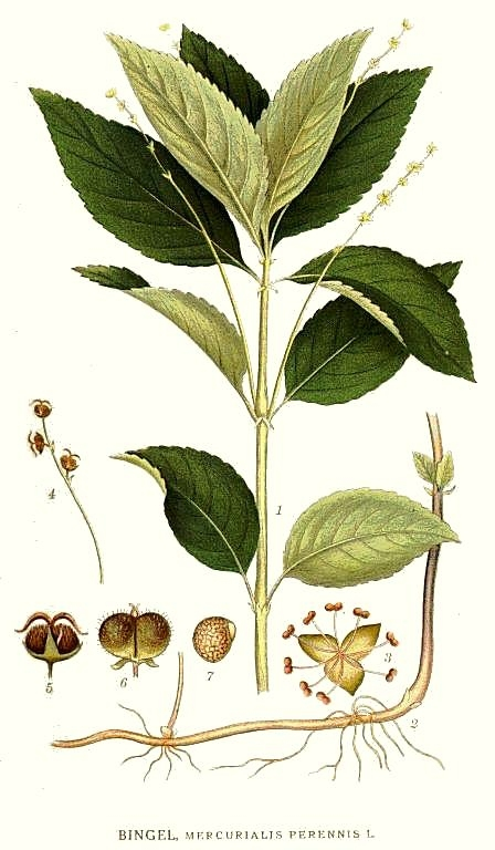 Original Description Bingel, Mercurialis perennis L.